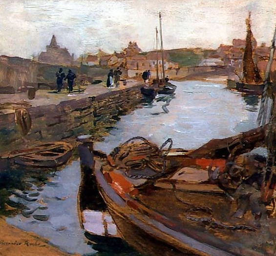 The Harbour, St. Monance